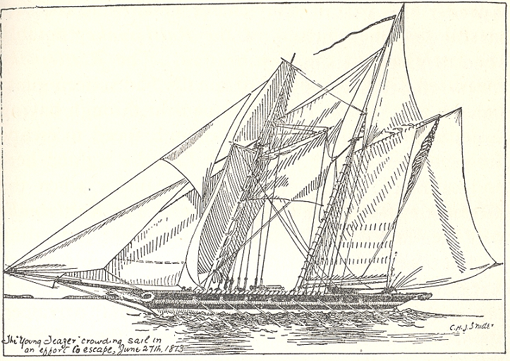 Image of Young Teazer. Under the Red Jack: Privateers of the Maritime Provinces of Canada in the War of 1812 by C.H.J. Snider